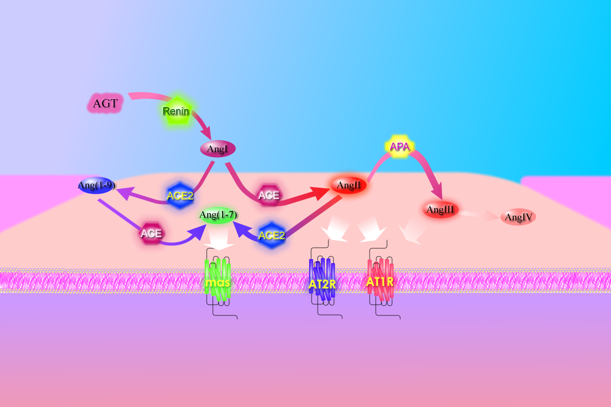 Renin-Angiotensin System. Abbreviation: Angiotensinogen,AGT Angiotensin I, AngI Angiotensin II, AngII Angiotensin III, AngIII Angiotensin IV, AngIV Angiotensin-(1-9), Ang(1-9) Angiotensin-(1-7), Ang(1-7) Angiotensin-converting Enzyme, ACE Angiotensin-converting Enzyme2, ACE2 Aminopeptidase A, APA Angiotensin Type 1 Receptor, AT1R Angiotensin Type 2 Receptor, AT2R mas Receptor, mas